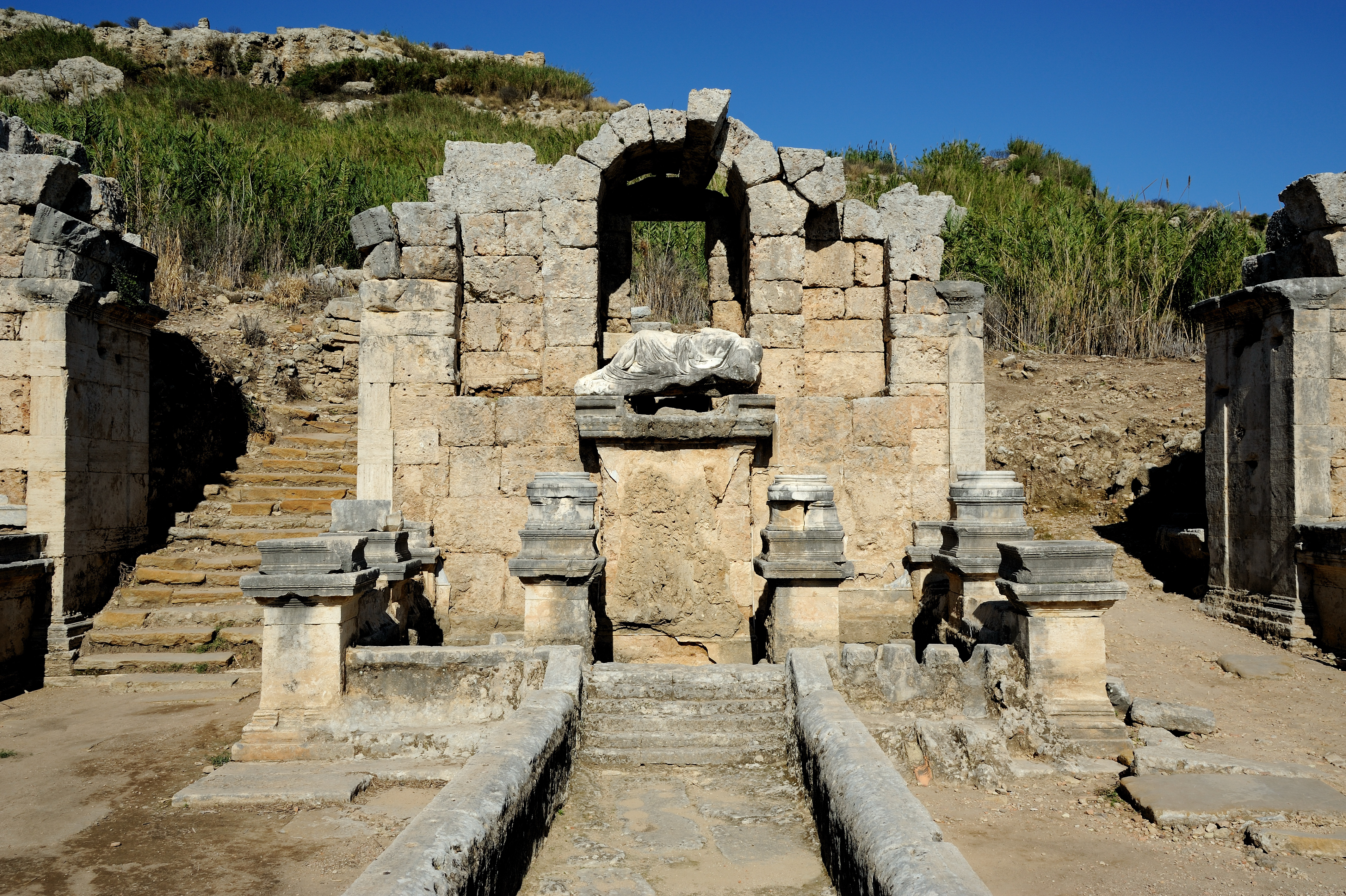 At the end of the Perge's colonnaded street is a water fountain or Nymphaeum. Water from a stream once flowed over the fountain and then on down the colonnaded streat in a raised channel. The Nymphaeum dates from 130-150 AD. A statue of a river god Kestros is located in the center the fountain.